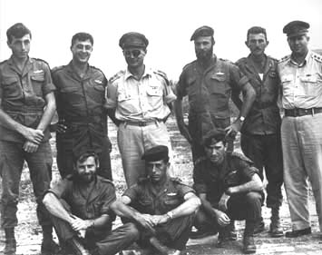 Different israeli officers of the parachutist 890e battalion in 1955 with Moshe Dayan - Chief of Staff. Lieutnant Meir Har-Zion - Major Arik Sharon - Lieutnant General Moshe Dayan (Chief of Staff) Captain Dani Matt - Lieutnant Moshe Efron - Major General Asaf Simchoni - Captain Aharon Davidi Lieutnant Ya'akov Ya'akov - Captain Raful Eitan